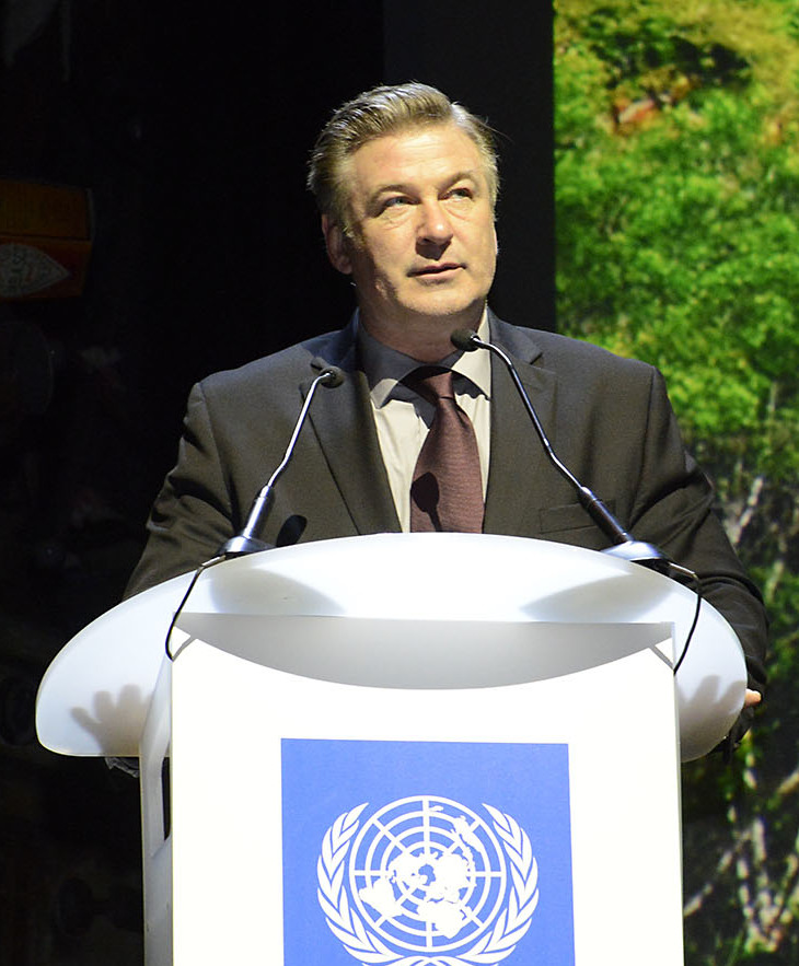 Equator Price with Alec Baldwin